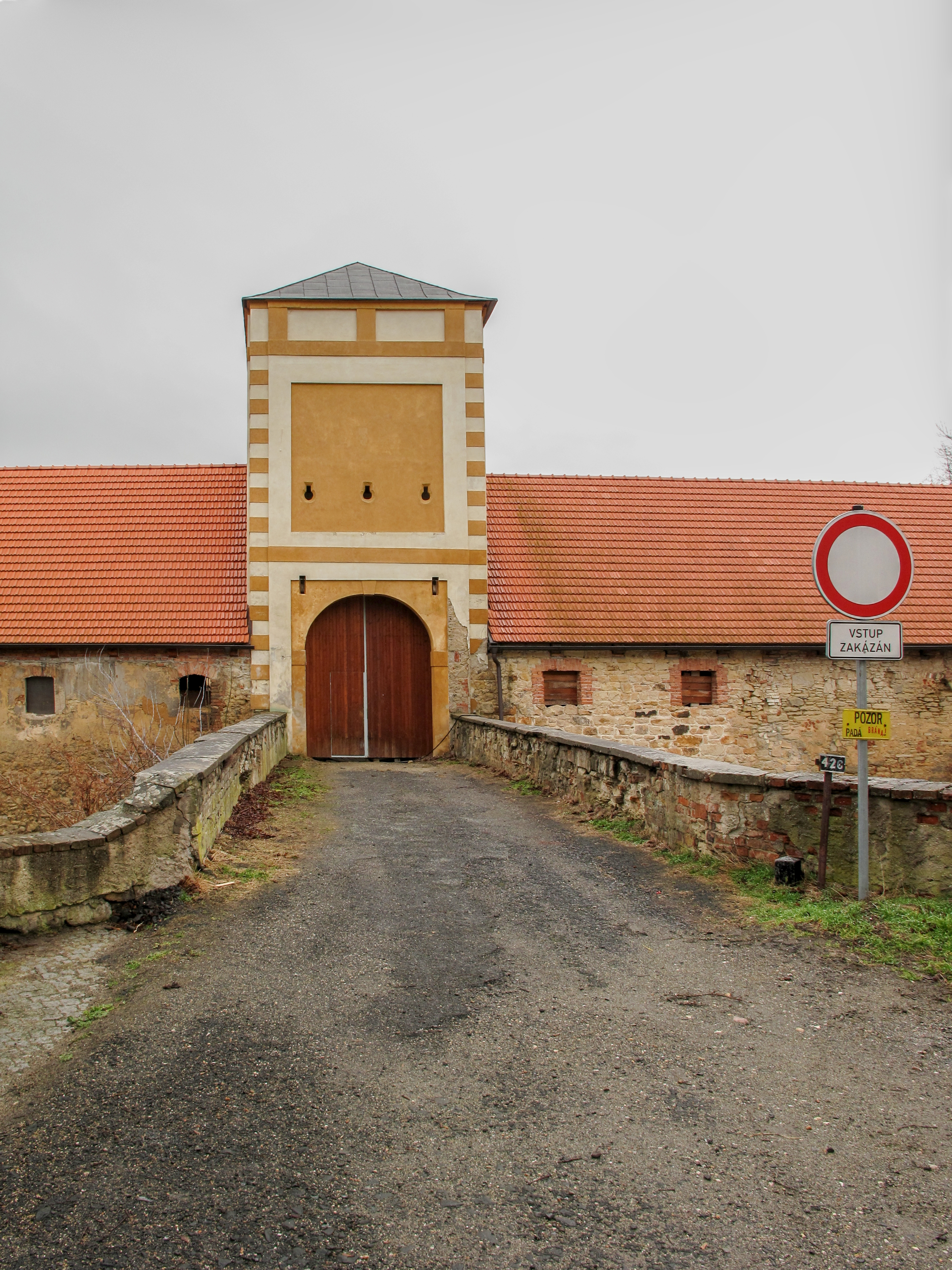 Castle gate in Košátky village, Mladá Boleslav District, Czech Republic.